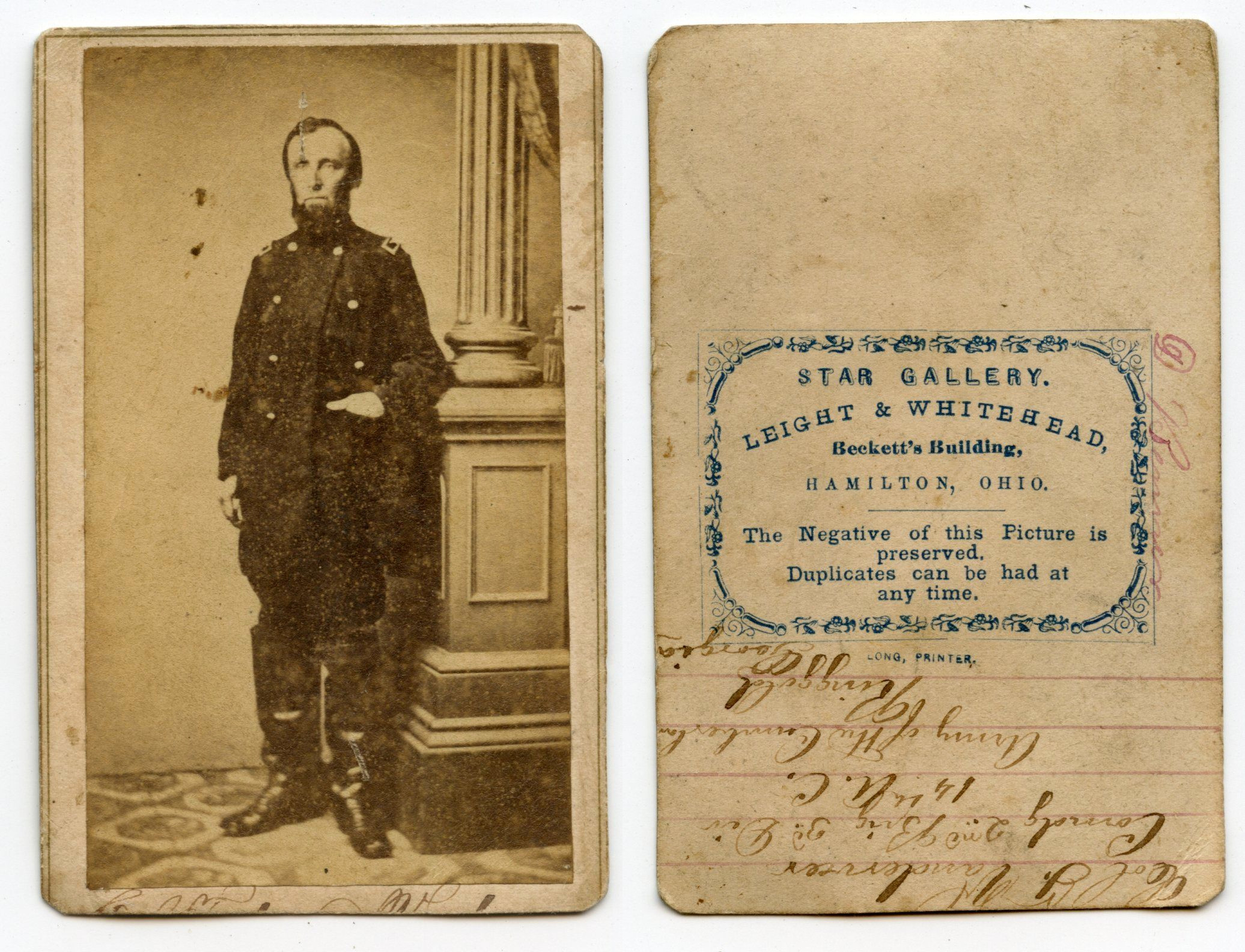 CDV portrait of Ferdinand Van Derveer, recto & verso